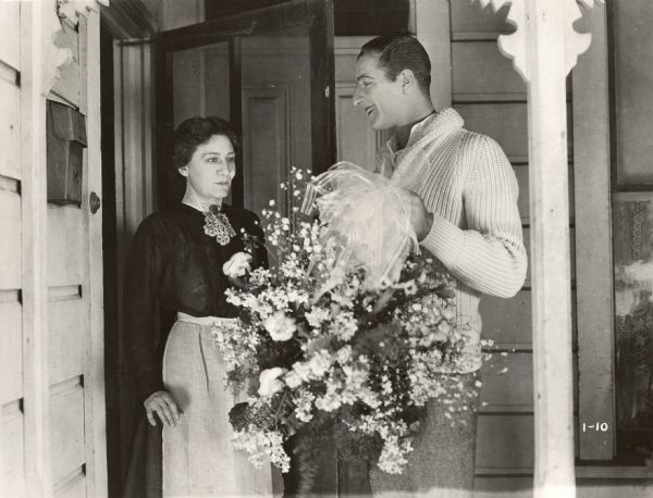 Louis Calhern with flowers at the front door with Margaret McWade in The Blot (Lois Weber Productions, 1921).